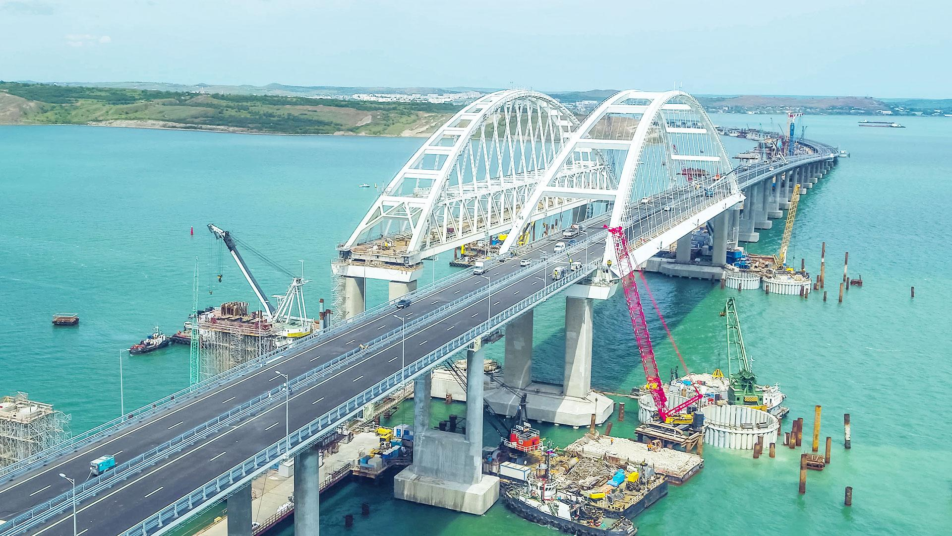 Crimean bridge, May 2018.